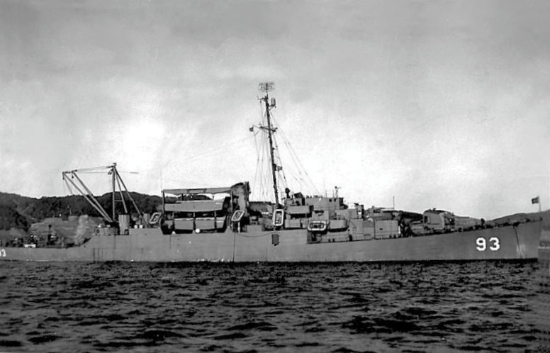 The U.S Navy high-speed transport USS Brock (APD-93) at anchor, circa in 1945.